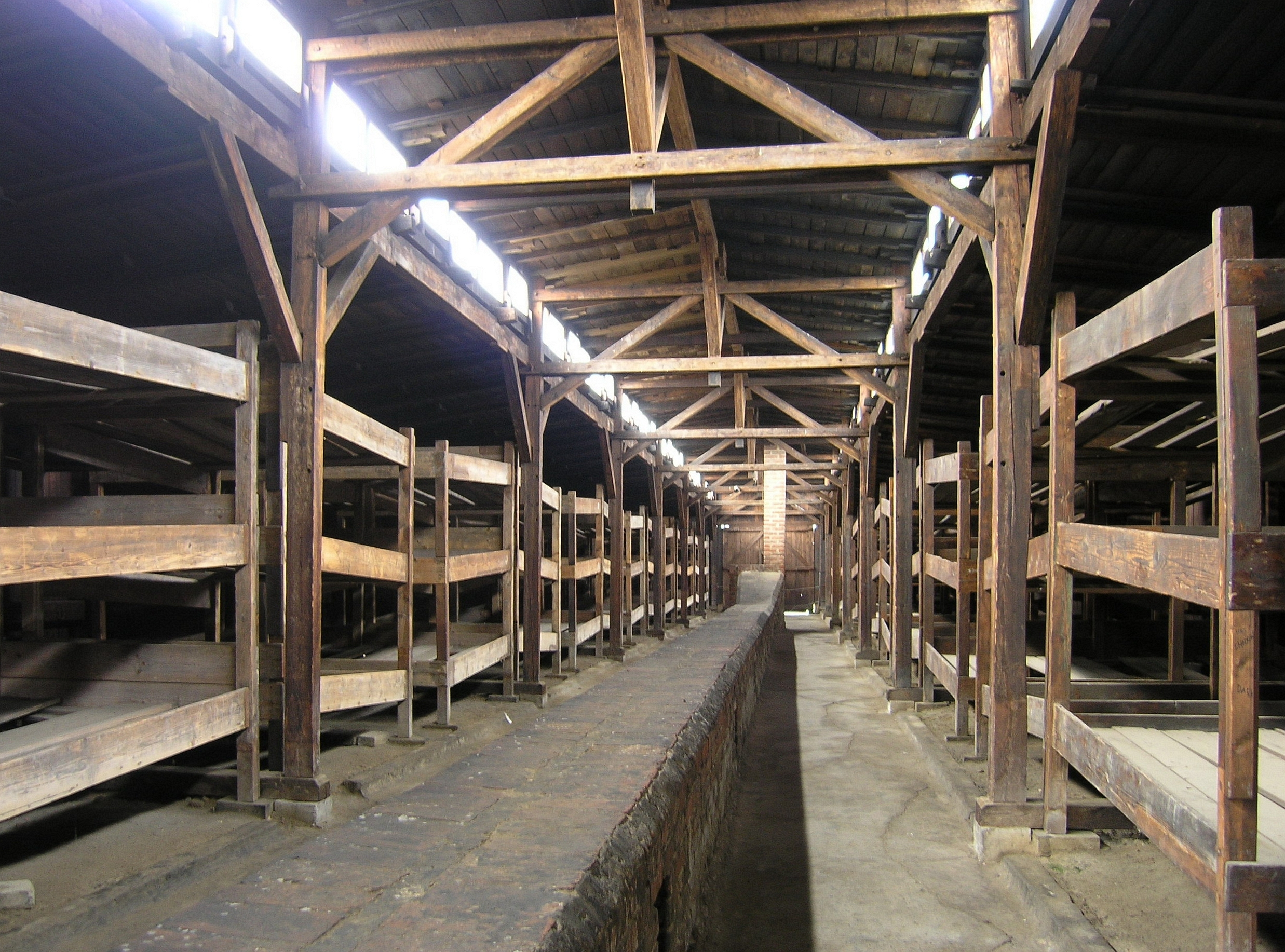 KZ Auschwitz-Birkenau, inside of a barrack, March 2007